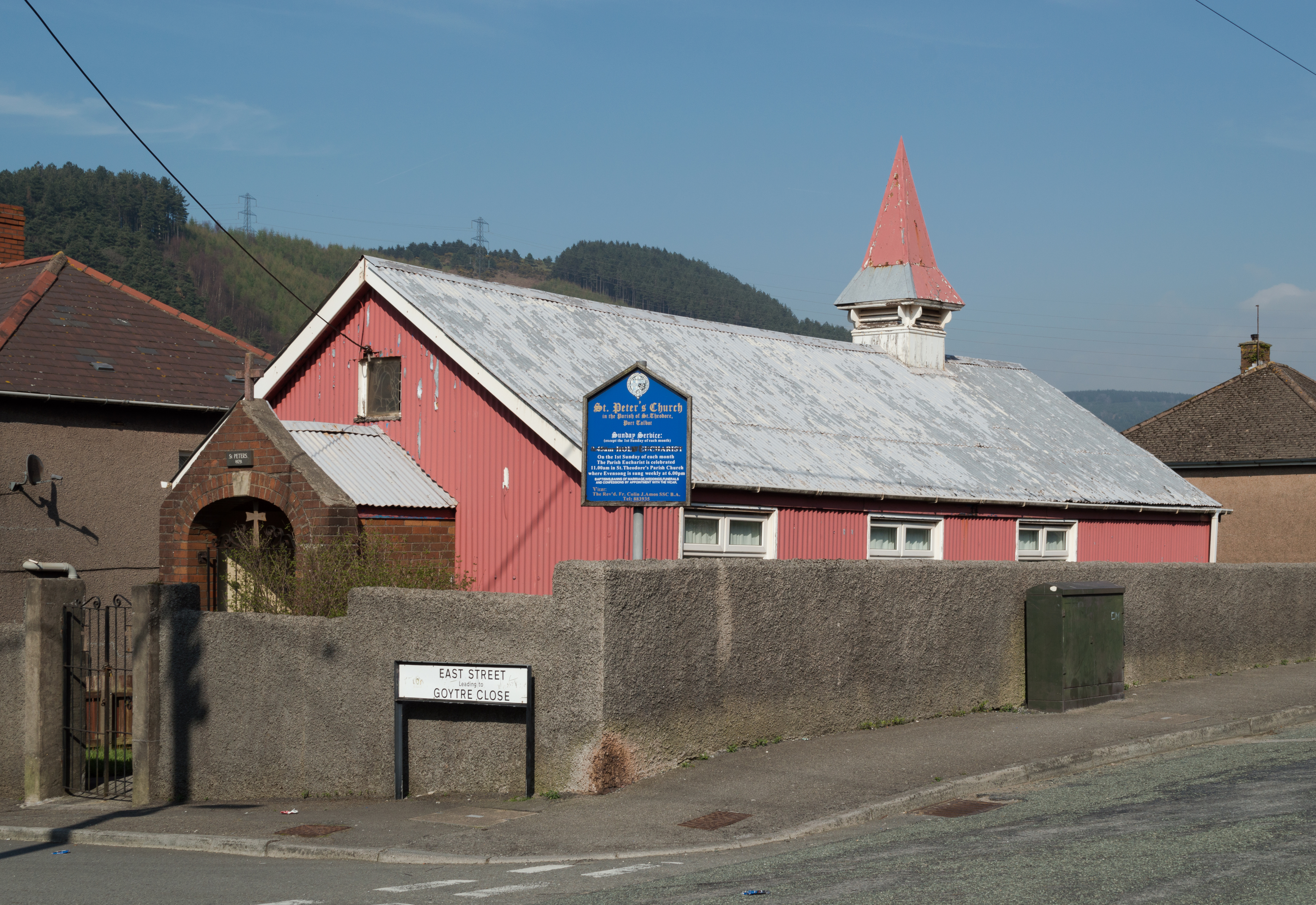 St Peter's Church, Goytre, Neath Port Talbot.